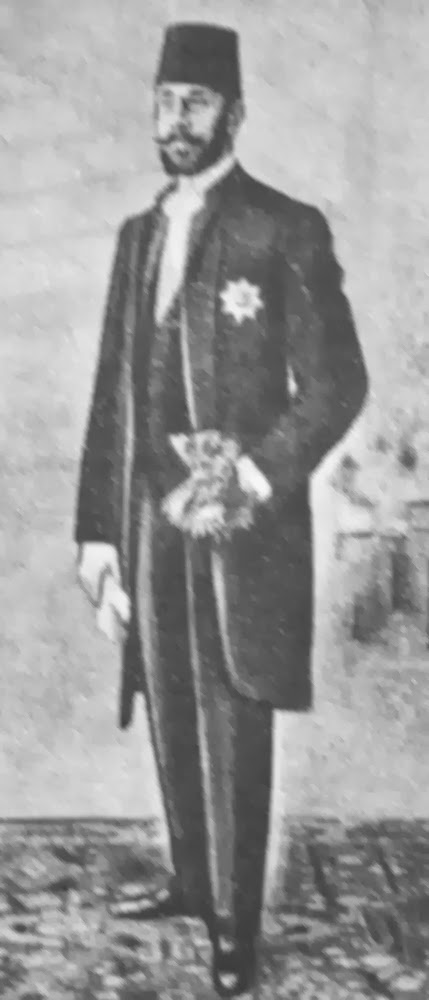 Akif Mehmed Paşa